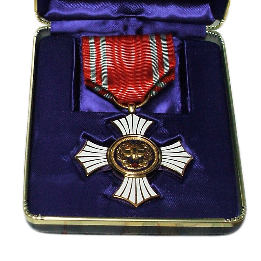 Japanese Red Cross Society Golden Order of Merit (medal type)